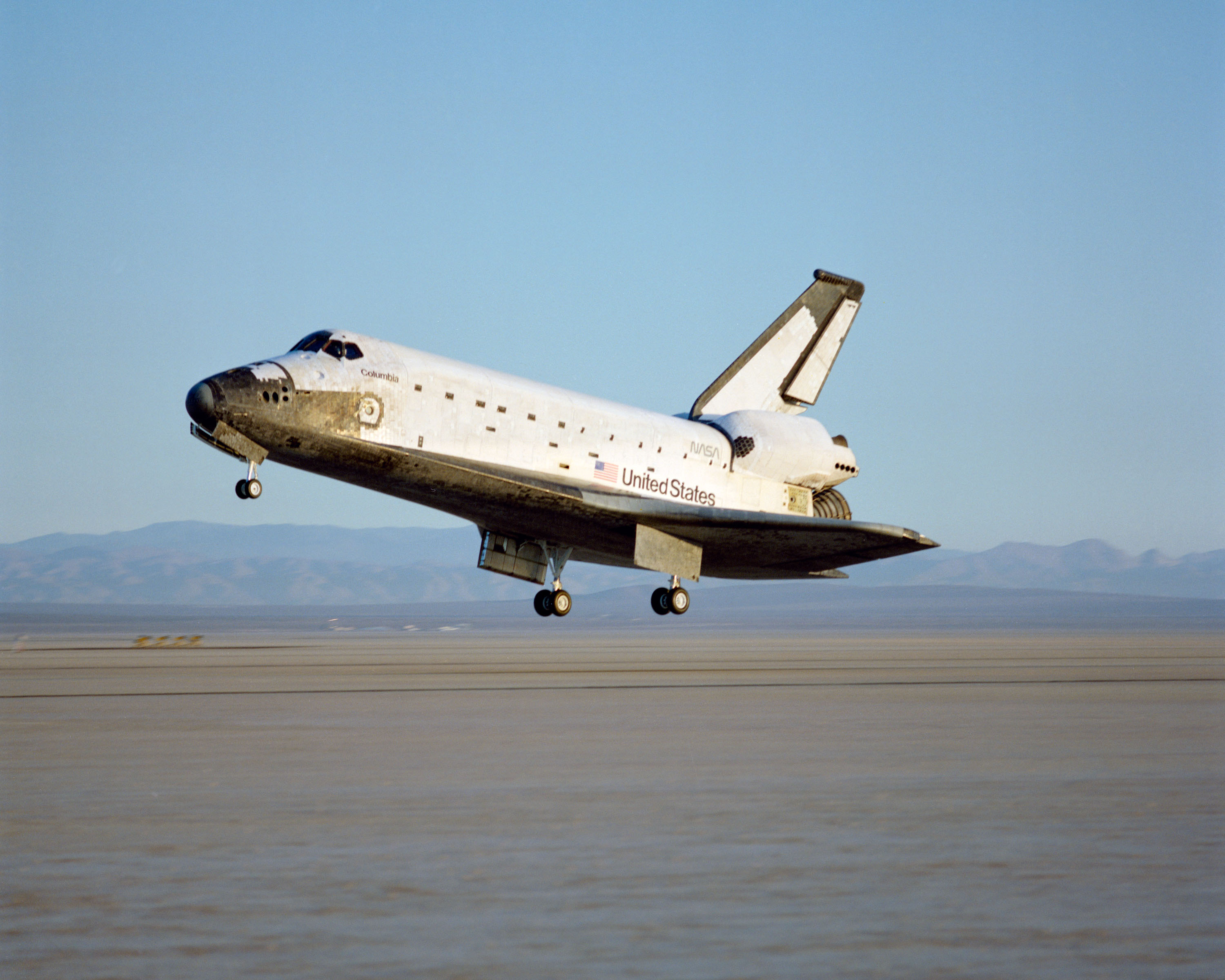 The title says it all. She landed at Edwards Air Force Base The ill-fated orbiter completed 20 more flights, which culminated in her destruction on February 1st, 2003, during the landing phase of STS-107, killing her brave crew of seven.